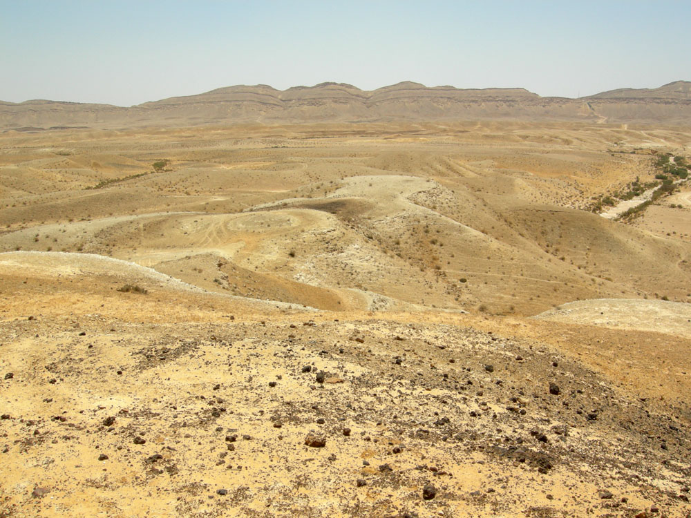 Center of Makhtesh Gadol, Negev, Israel.